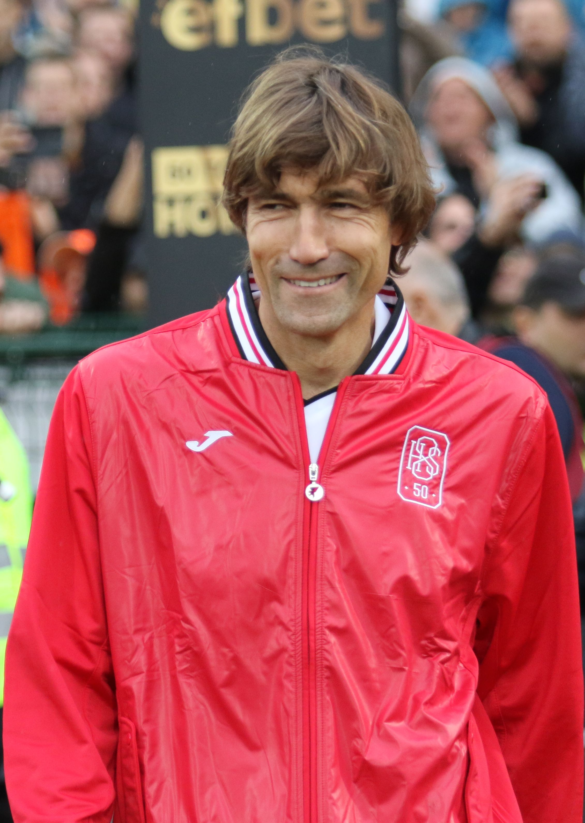 Julio Salinas Fernández (Spanish pronunciation: [ˈxuljo saˈlinas feɾˈnandeθ]; born 11 September 1962) is a Spanish retired footballer who played during the 1980s and 1990s.